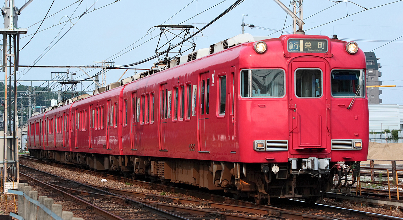 the Meitetsu 6000 series EMU train (6027F) approaching Kitayama Station on the Meitetsu Seto Line